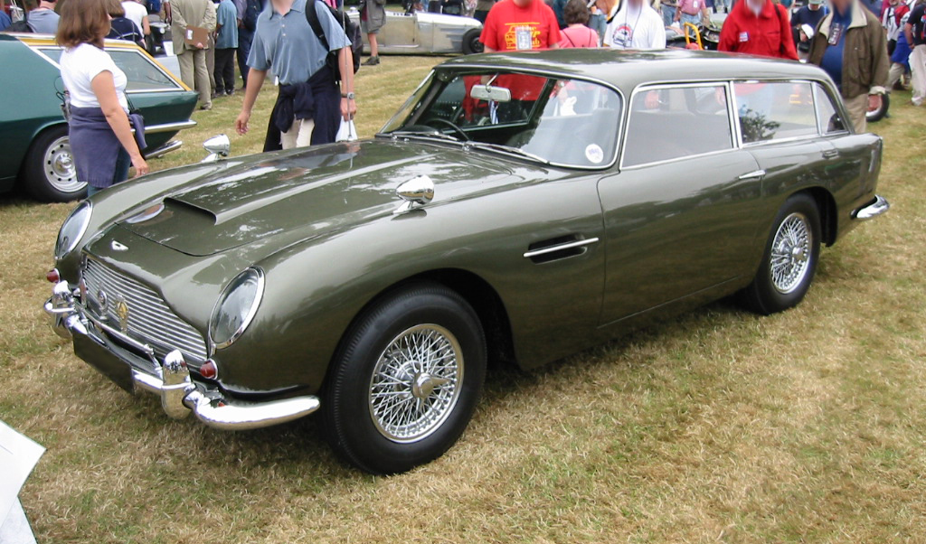 1964 Aston Martin DB5 Shooting Brake (3,995 cc inline six)